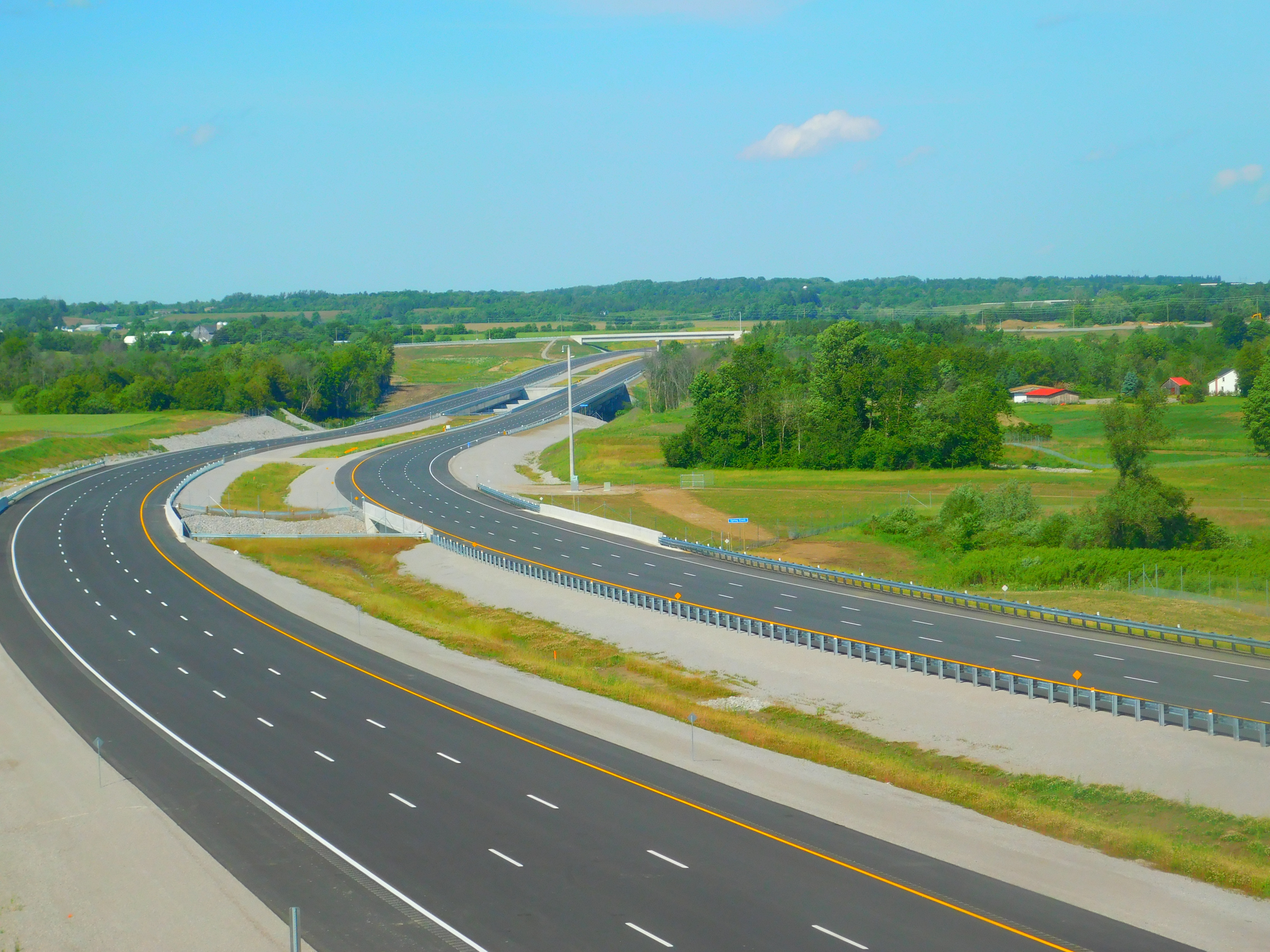 Ontario Highway 407E a few weeks before opening in June 2016.